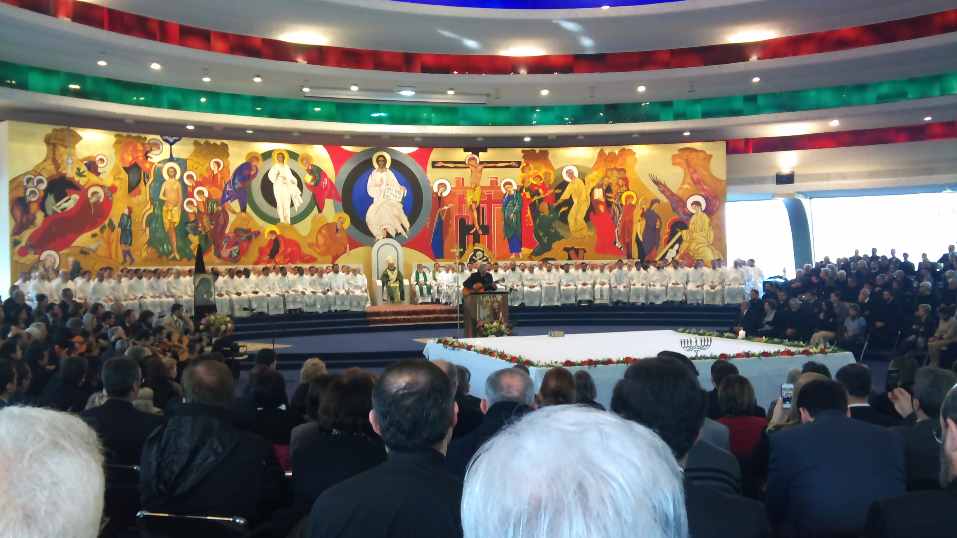 Sollemn Eucharist presided by card. Antonio Cañizares Llovera prefect of the Vatican Congregation for the Divine Worship in the International Neocatechumenal Centre in Porto San Giorgio, 20th Jan, 2014, Italy.